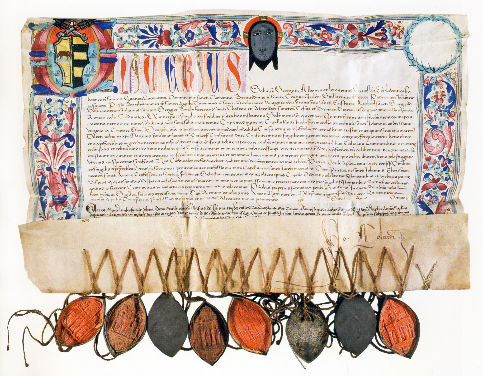 The document establishing the indulgence to the faithful who visit the chapel of St. Jacob's in parish church in Kłodzko (1500).